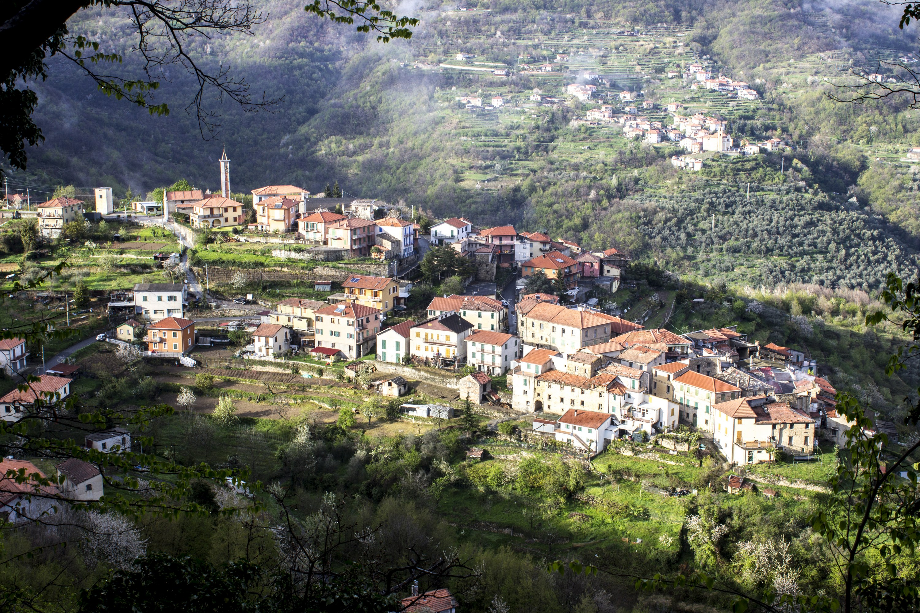 leverone, small village in italy, liguria